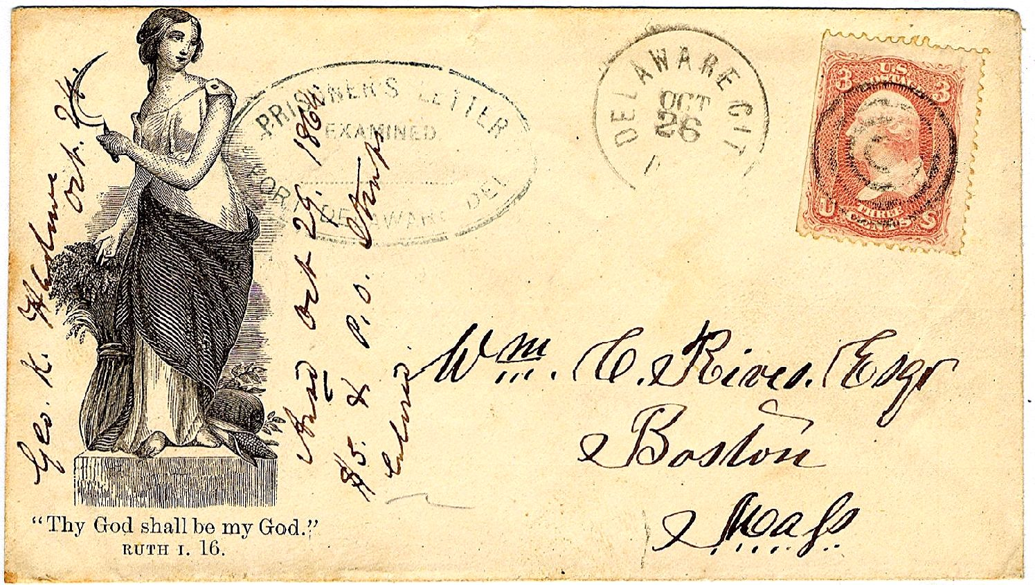 POW Cover from Fort Delaware, 1864